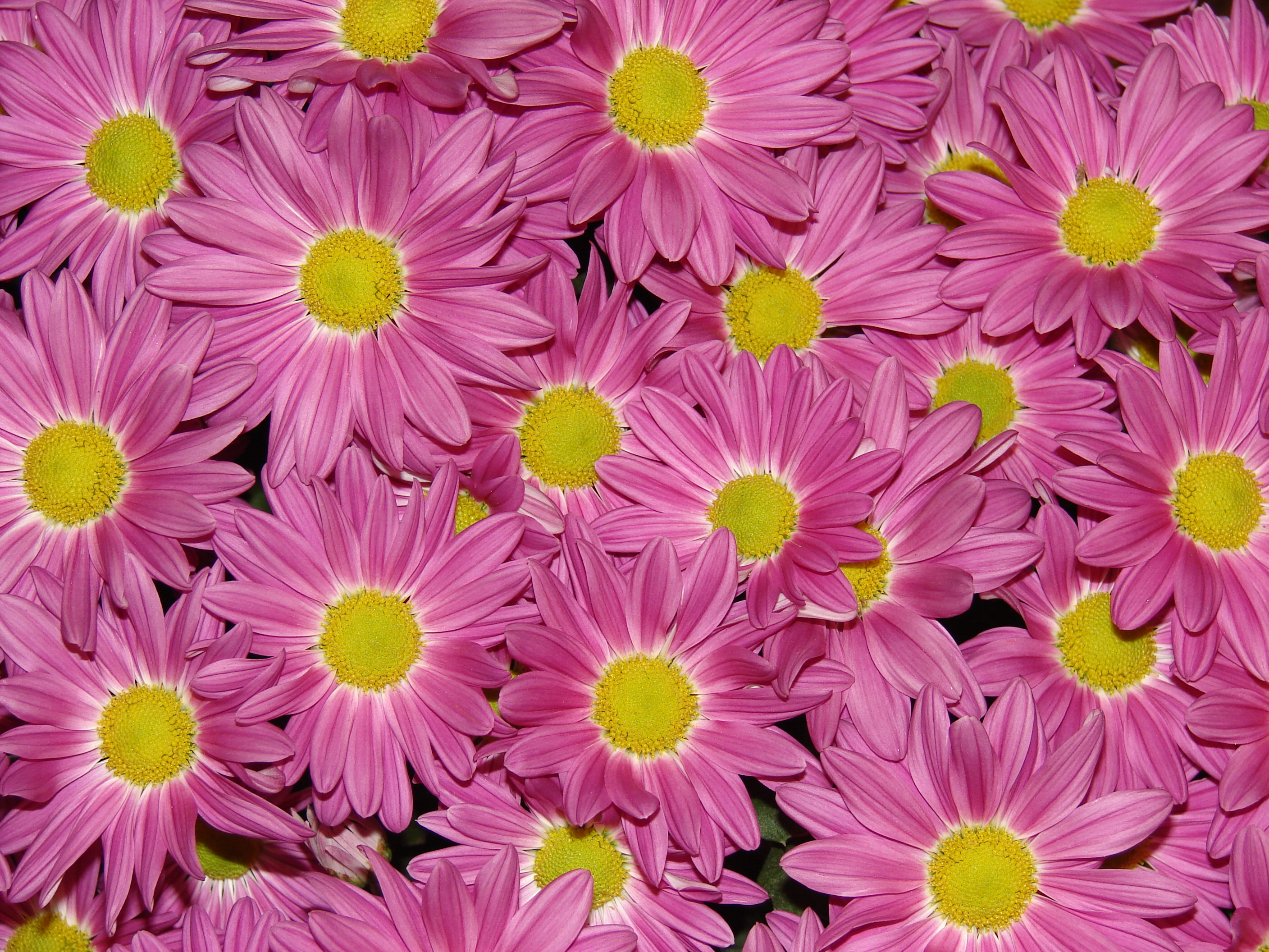 Chrysanthemum sp. (flowers pink purplish). Location: Maui, Foodland Pukalani